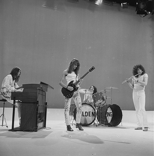 Golden Earring performing in TopPop Special (Dutch TV). Recorded 16 April 1971. Broadcast 21 May & 8 June 1971.